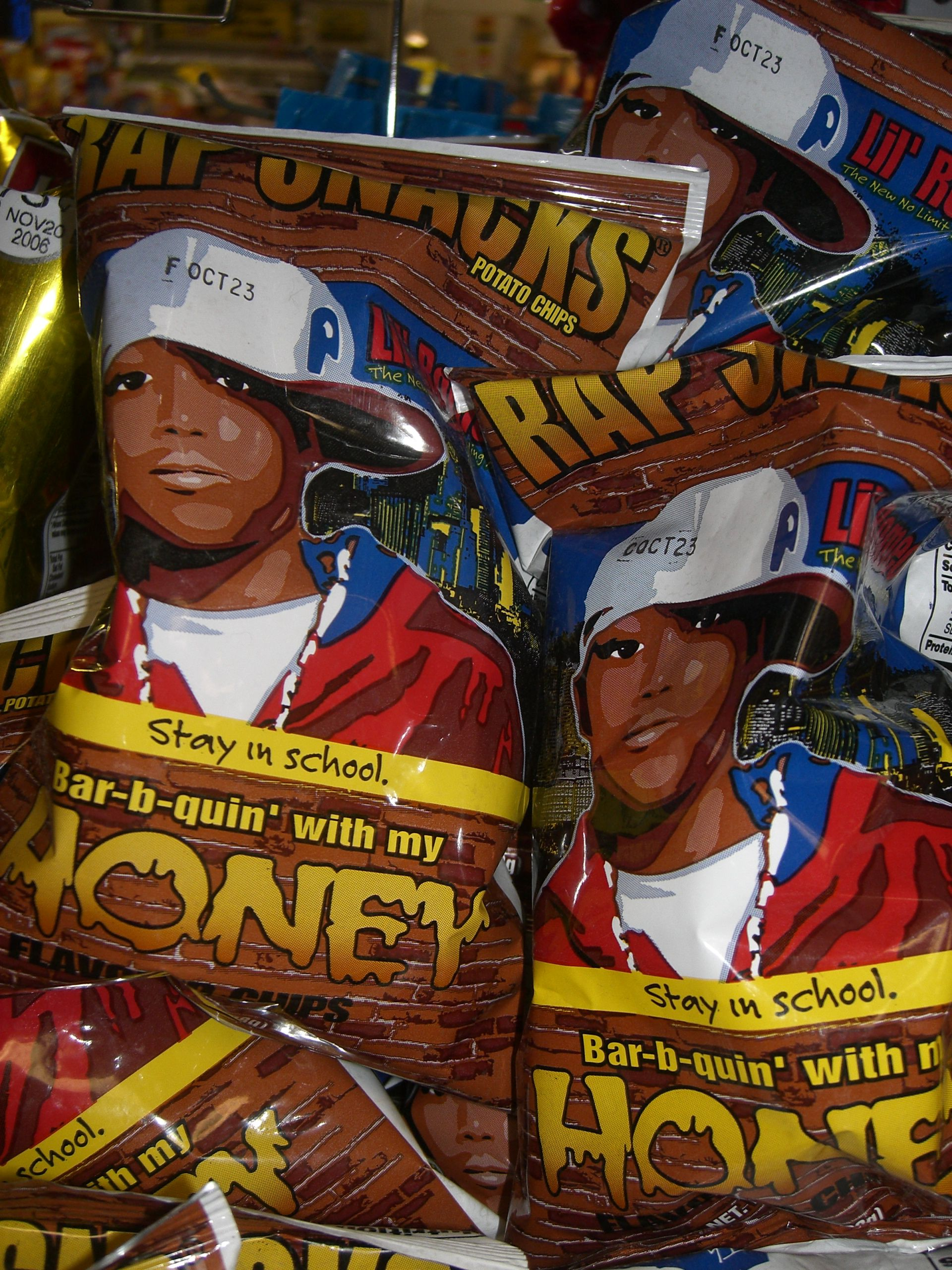 hip hop images used on foodstuffs